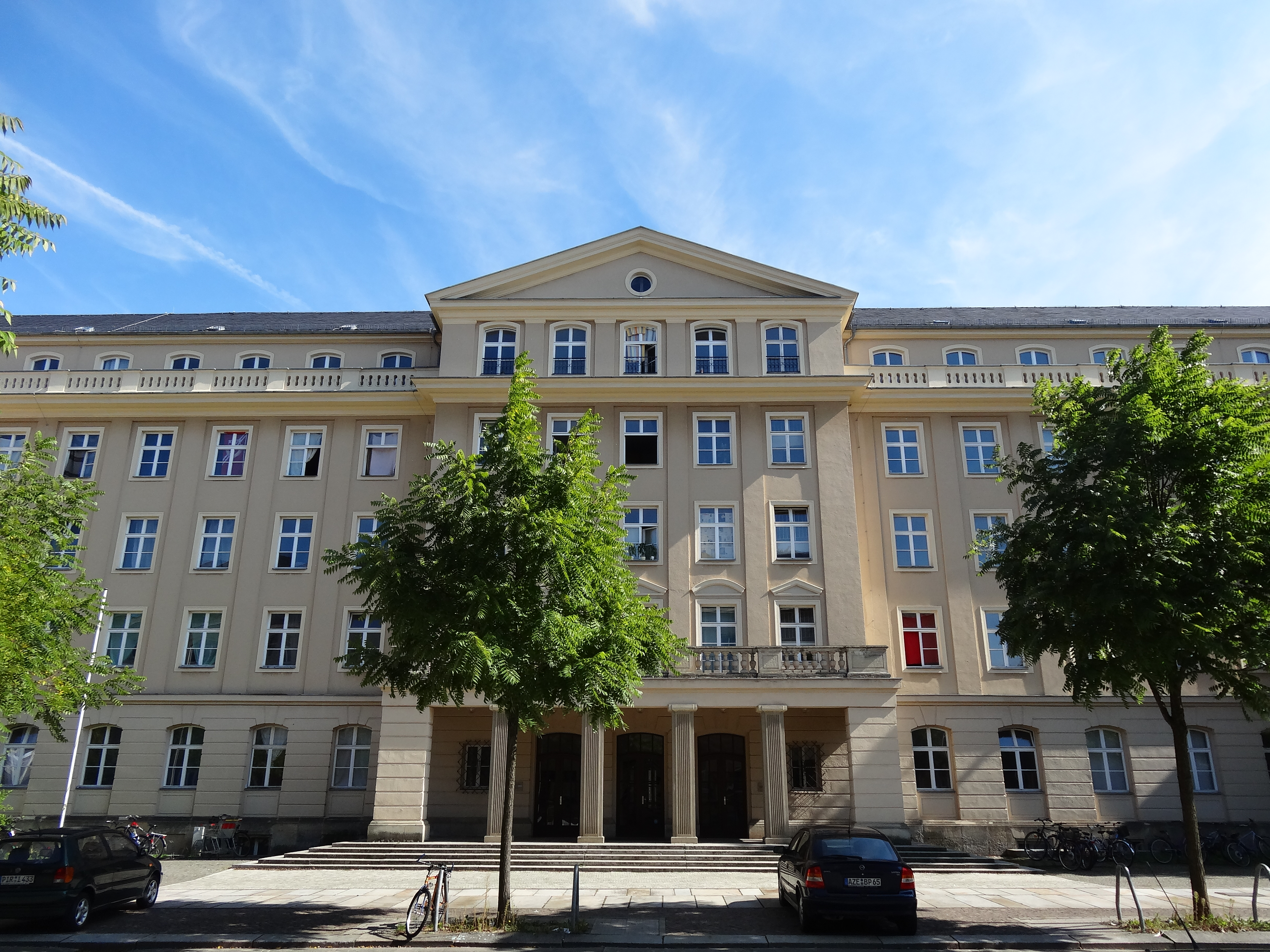 The house at Gutzkowstraße 33, in 01069 Dresden, Germany.